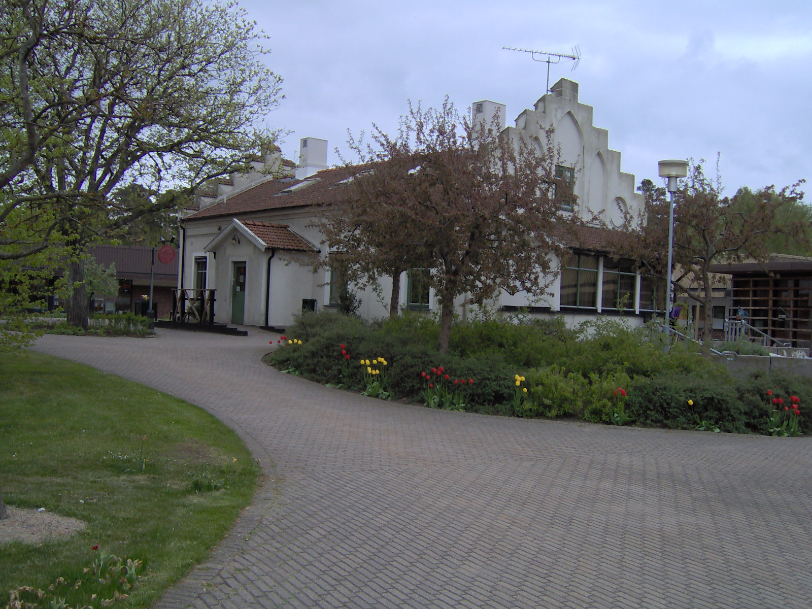 Skanör station today. Situated in the middle of Bäckatorget, Skanör's main square. It functions as a bank. Source: taken by user may 16th 2005